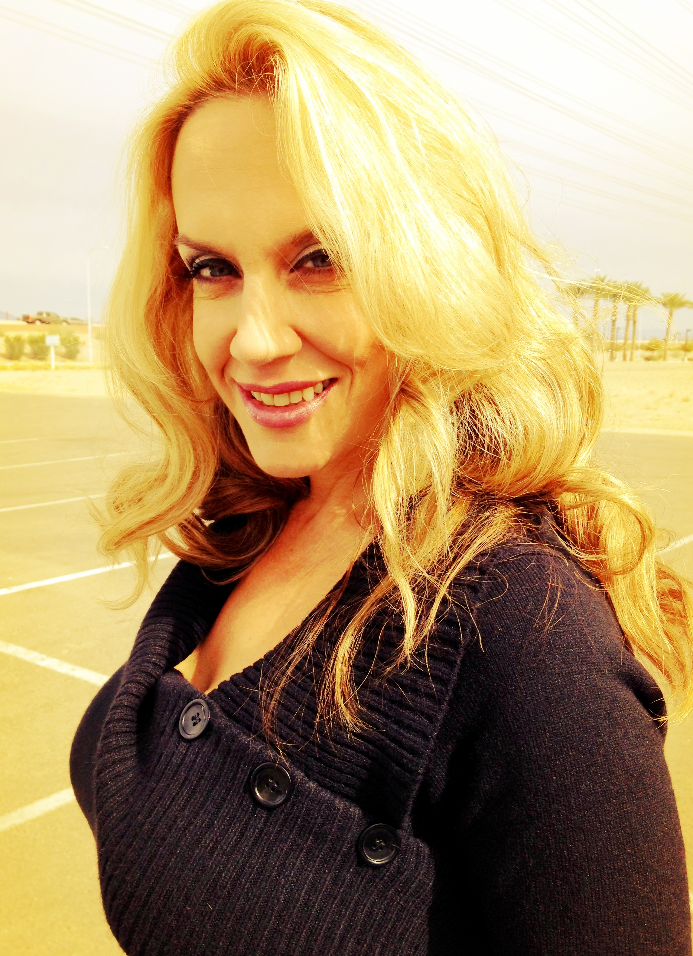 Brenda Brathwaite outside the TEDx conference center in Phoenix, AZ in 2011